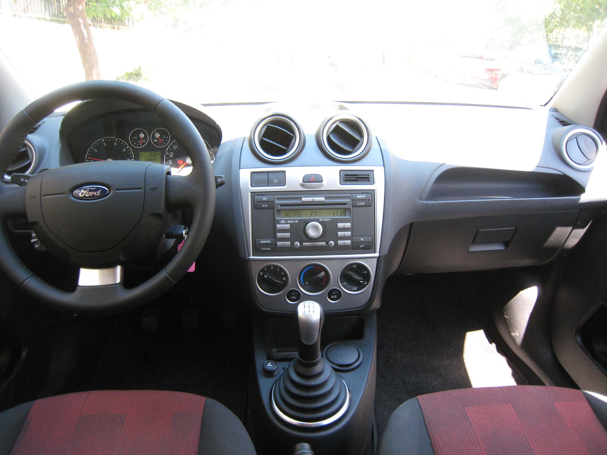 Interior of Ford Fiesta Ebony.